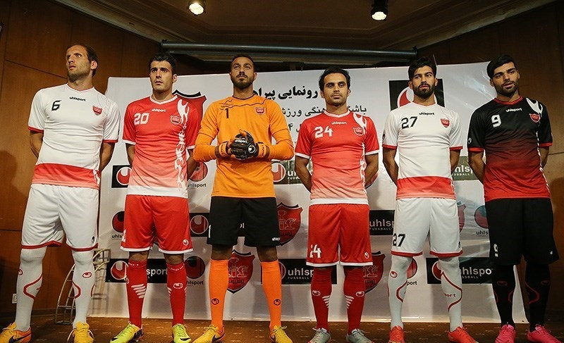 unveiling of Persepolis' new kits for 2015-16 season